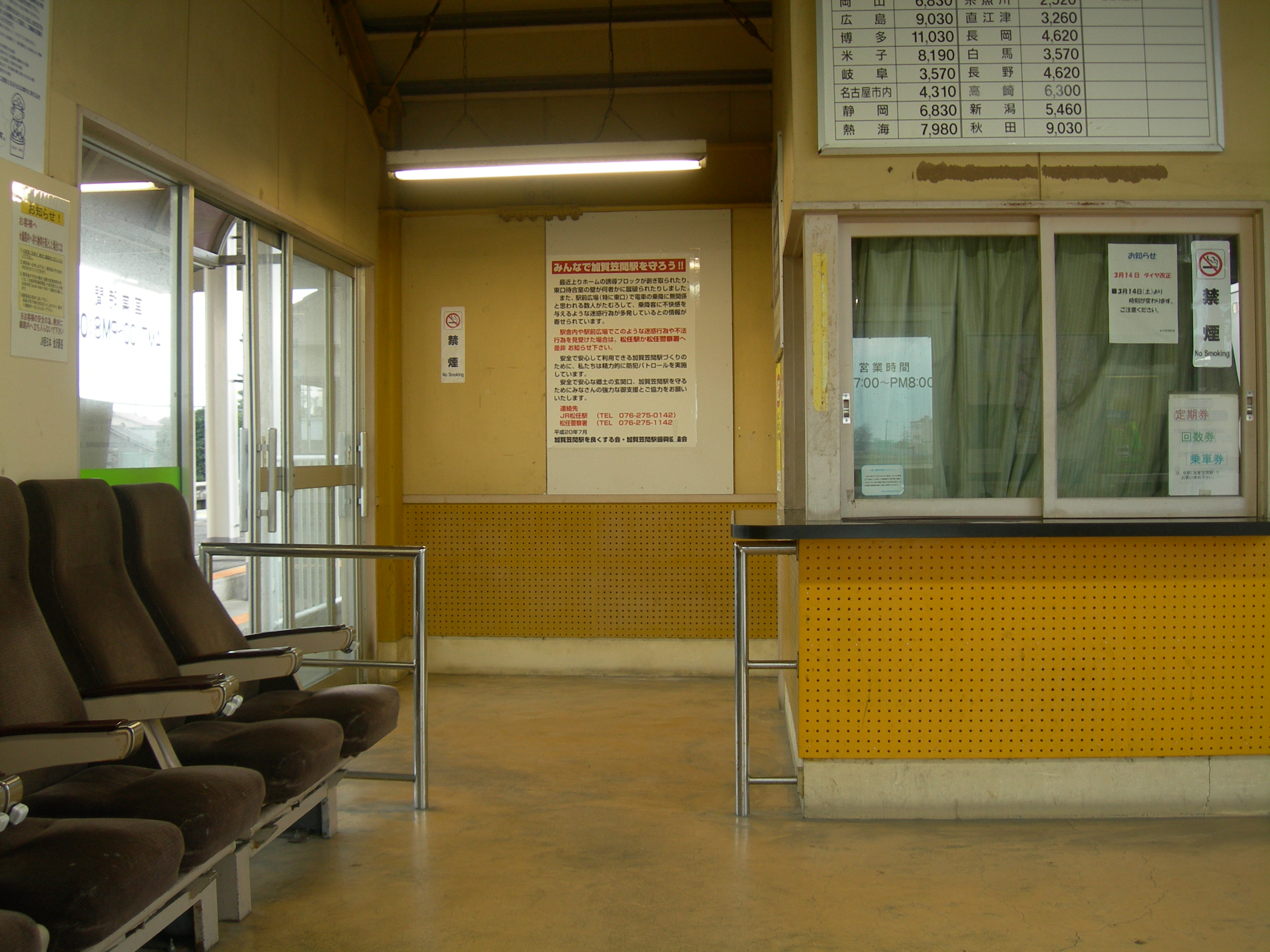 Kaga-Kasama Station waiting room